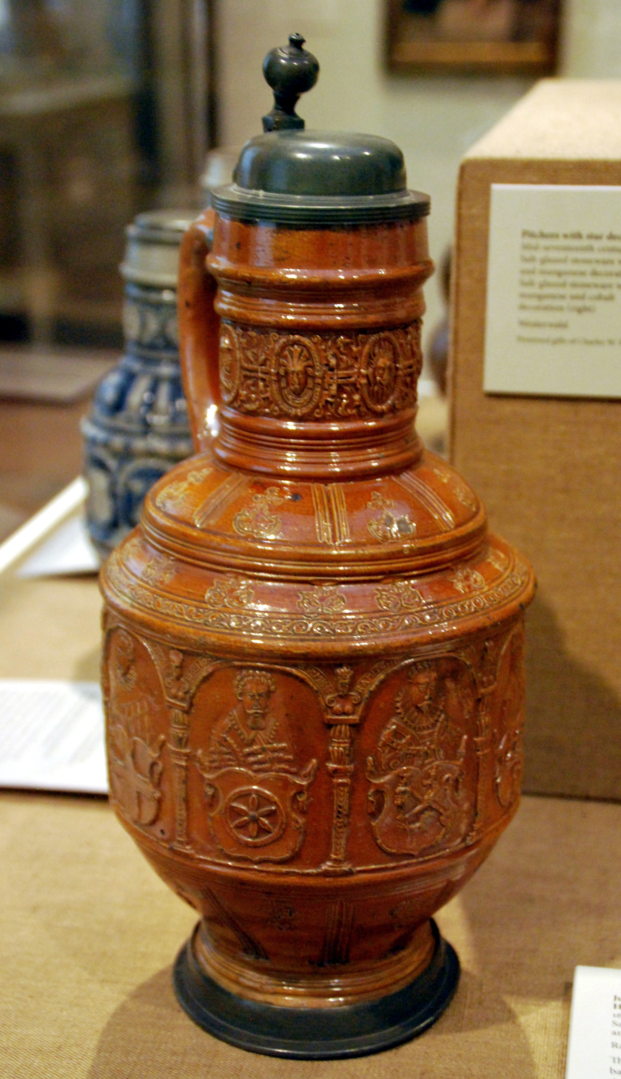 Jug with portraits of the electors ("Kurfürsten") of the King of the Holy Roman Empire (Germany); Salt glazed Stoneware with wash and pewter lid; 1602 made in Raeren; Philadelphia Museum of Art, "The Art of German Stoneware" 2012 exhebition.